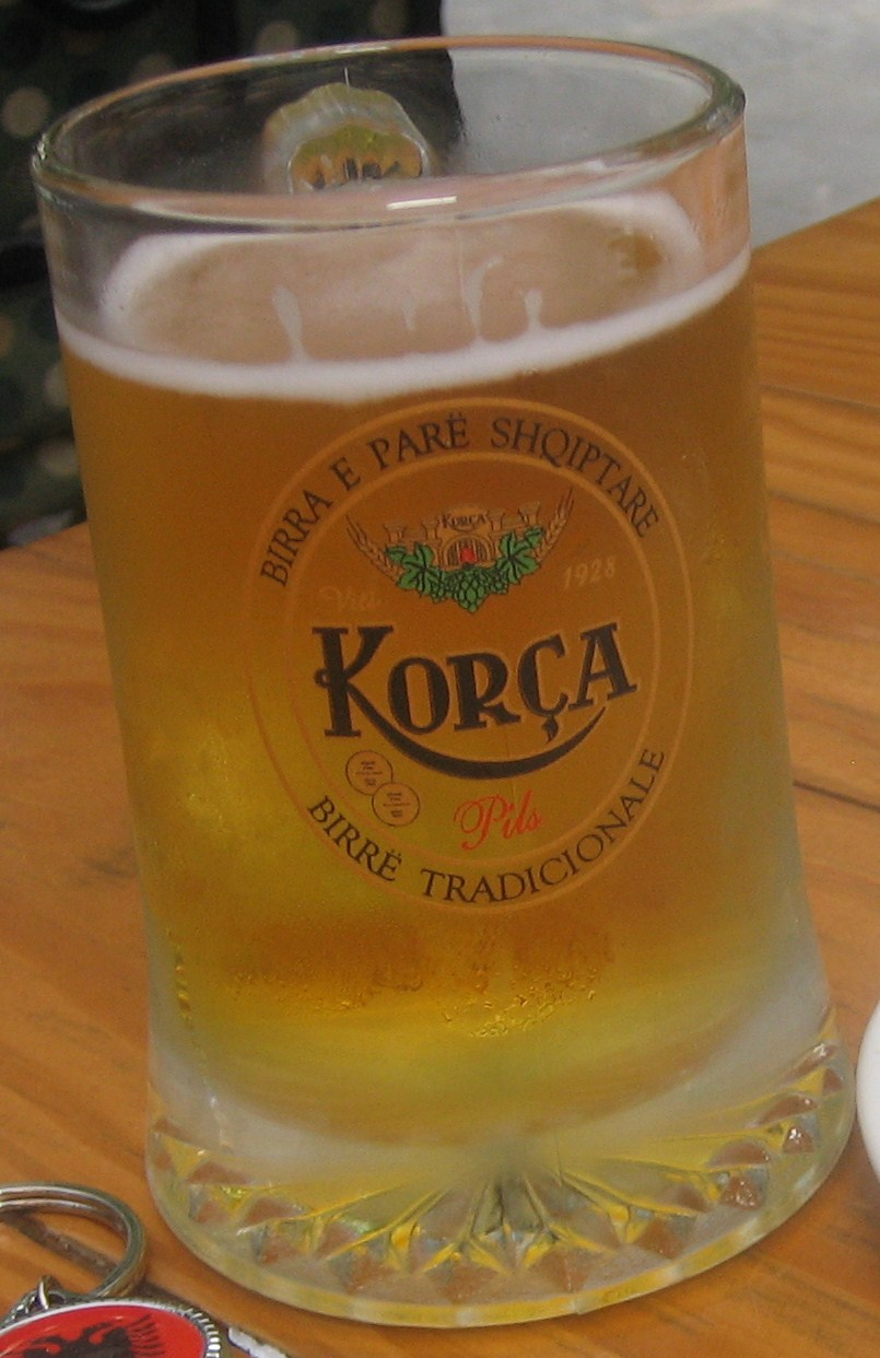 A glass of Birra Korça in the Sarajet restaurant in Tirana, Albania